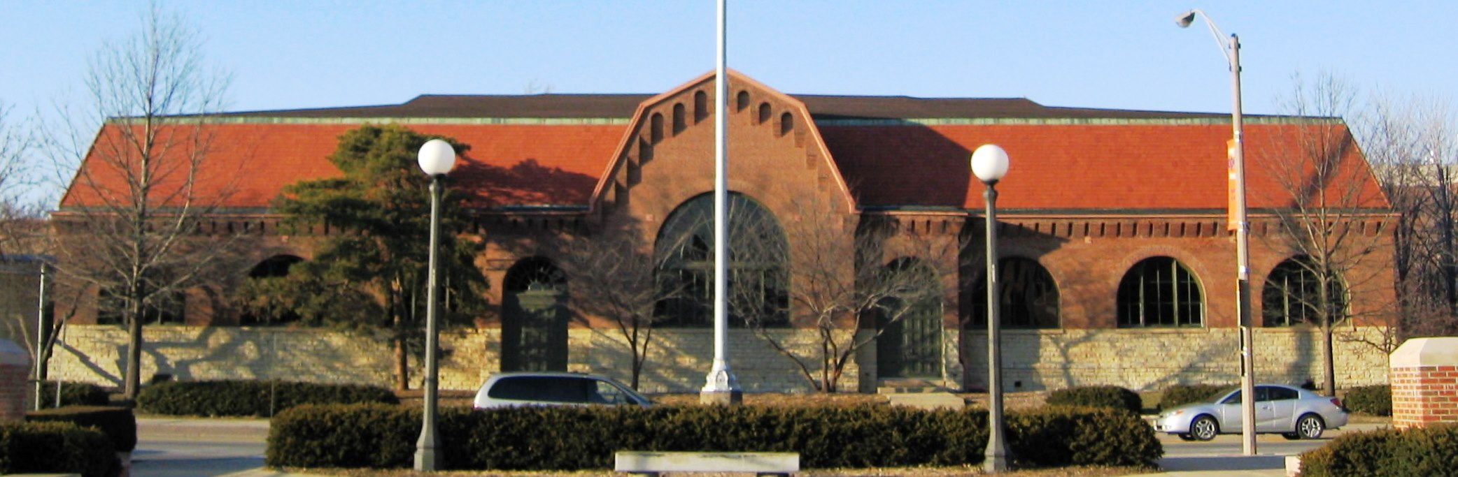 Photo of Kenny Gym Annex, at University of Illinois at Urbana-Champaign